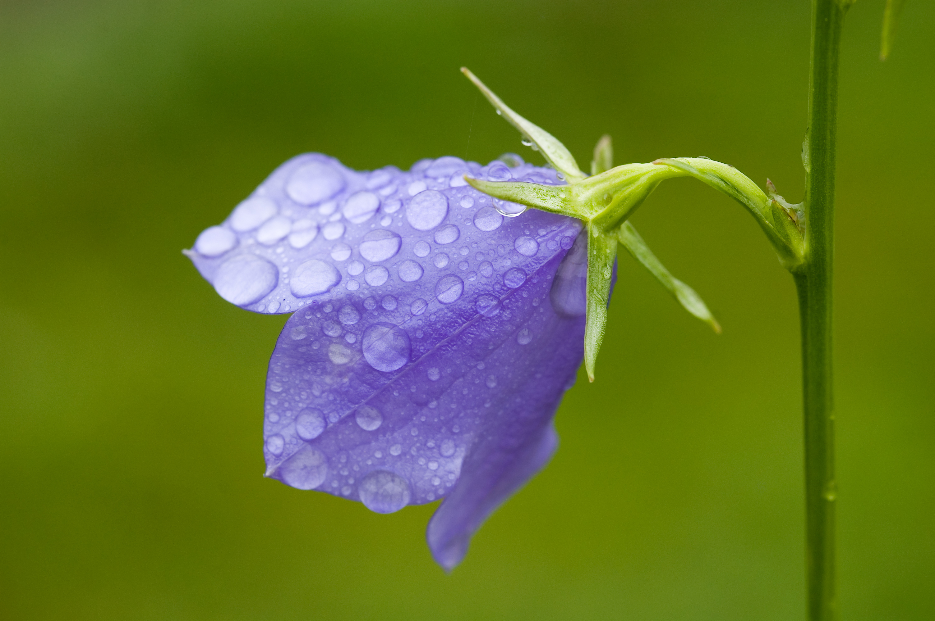 Campanula (Thunb.) Lindl.: flowering shoot, photographed in Switzerland after a small rain in my garden.